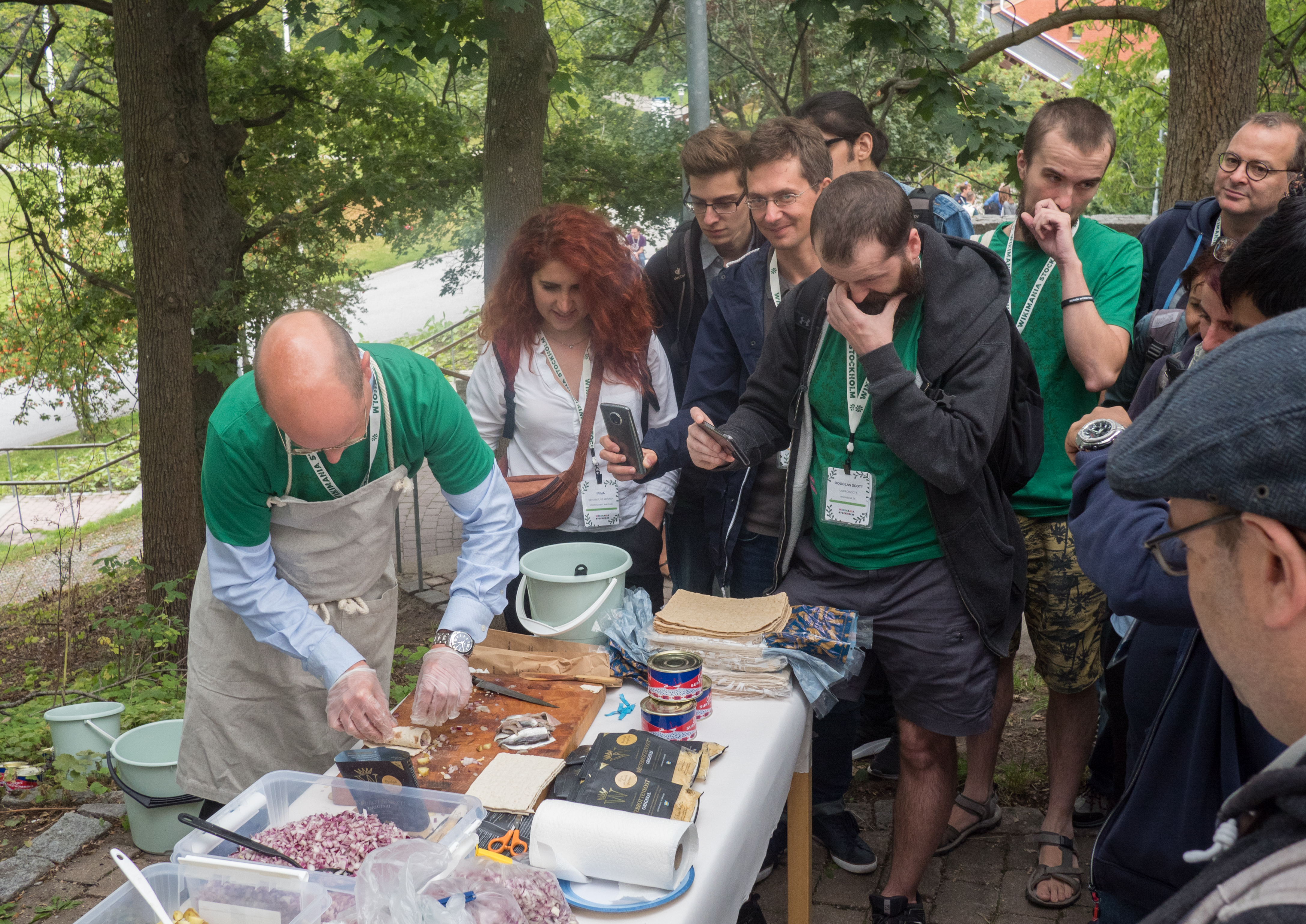 Surstromming event/tasting at Wikimania 2019